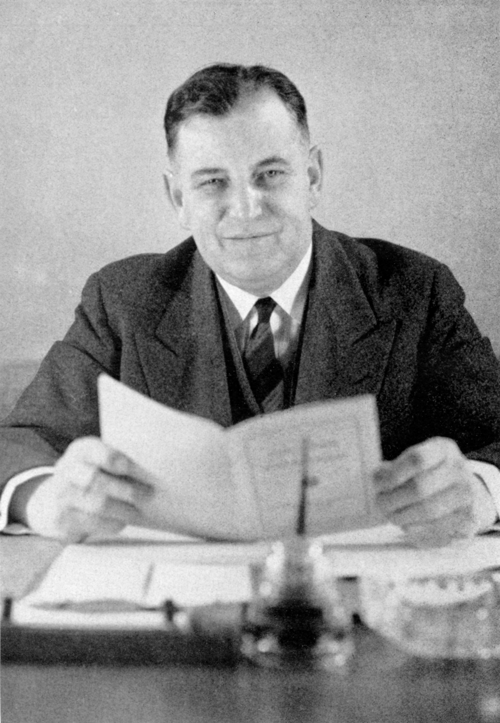 Portrait photograph of William R. Davies (1893–1959), second president of the University of Wisconsin-Eau Claire